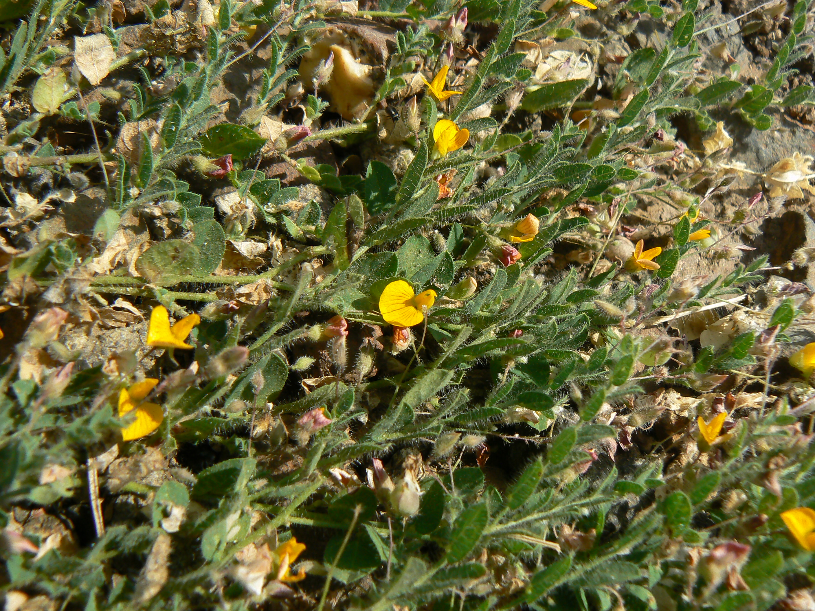 Fabaceae (pea, or legume family) » Crotalaria filipes kroh-tuh-LAR-ee-uh -- Greek krotalos; refers to sound, dried pods make when shaken fil-EE-pays -- meaning, thread-like stalks commonly known as: creeping hemp • Marathi: फटफटी phatphati Origin: India ... slender, prostrate or suberect, much branched herb ... branches terete below, compressed near the apex, clothed with long, spreading hairs. ... leaves alternate, subsessile, ovate or oblong, apex obtuse or acute, often mucronate, base cordate, sparsely hairy and gland-dotted; nerves 4-5 pairs, looped at margin, prominent beneath; stipules absent. ... flowers yellow, 1-3, in axillary or terminal lax racemes. References: Common Indian Wild Flowers by Isaac Kehimkar • Further Flowers of Sahyadri by Shrikant Ingalhalikar • Sahyadri Database